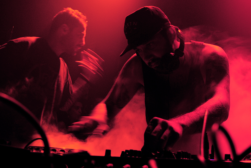 Zombie Kids djing in Madrid